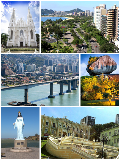 Images of Vitória, Espírito Santo, Brazil.